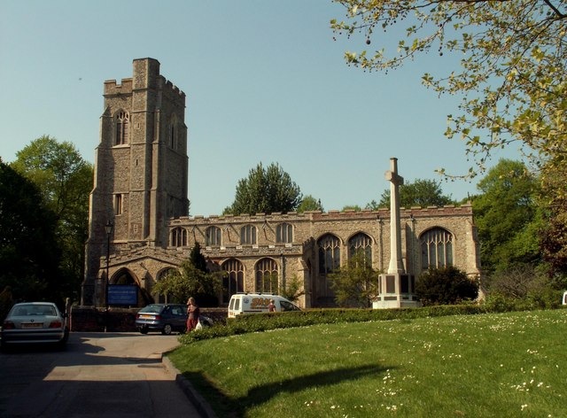 St. Gregory's church, Sudbury, Suffolk. Sudbury has three medieval churches and this one is north-west of the town by the small green. It is mainly 14th century and has a fairly rare south porch, which has an east chapel attached to it.